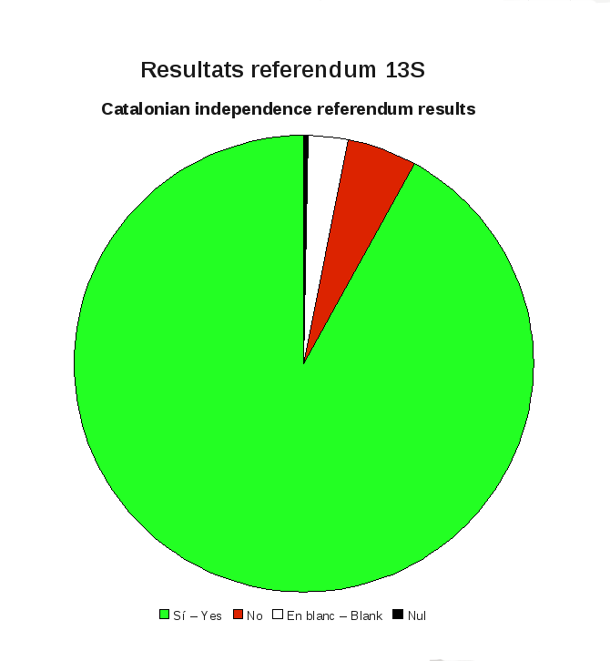 13th September 2009 Catalonian independence referendums, 2009–2010 results.